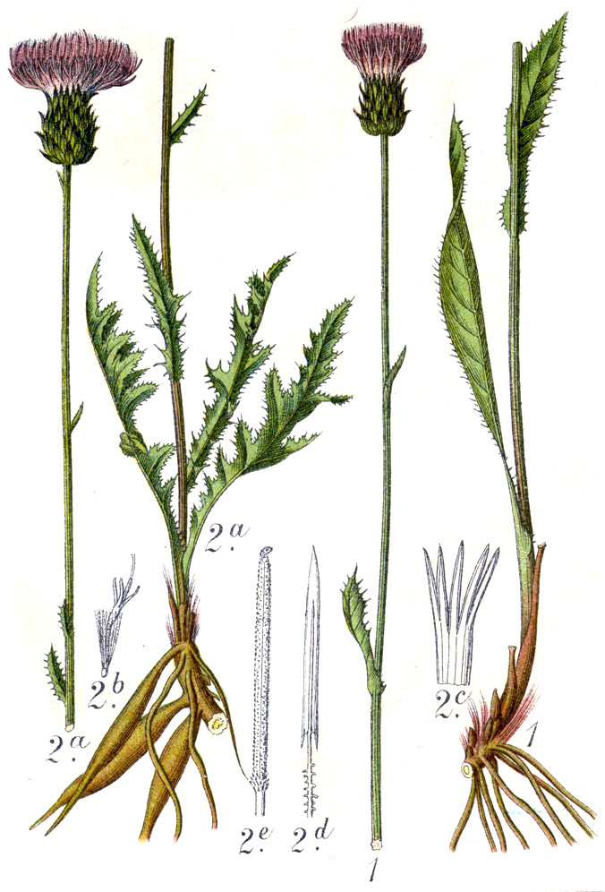 1. Cirsium tuberosum (L.) All., syn. Carduus tuberosus L.2. Cirsium dissectum (L.) Hill, syn. Carduus anglicus Lam. Original Caption 1. Englischer Distel, Carduus anglicus 2. Knollen-Distel, Carduus tuberosus